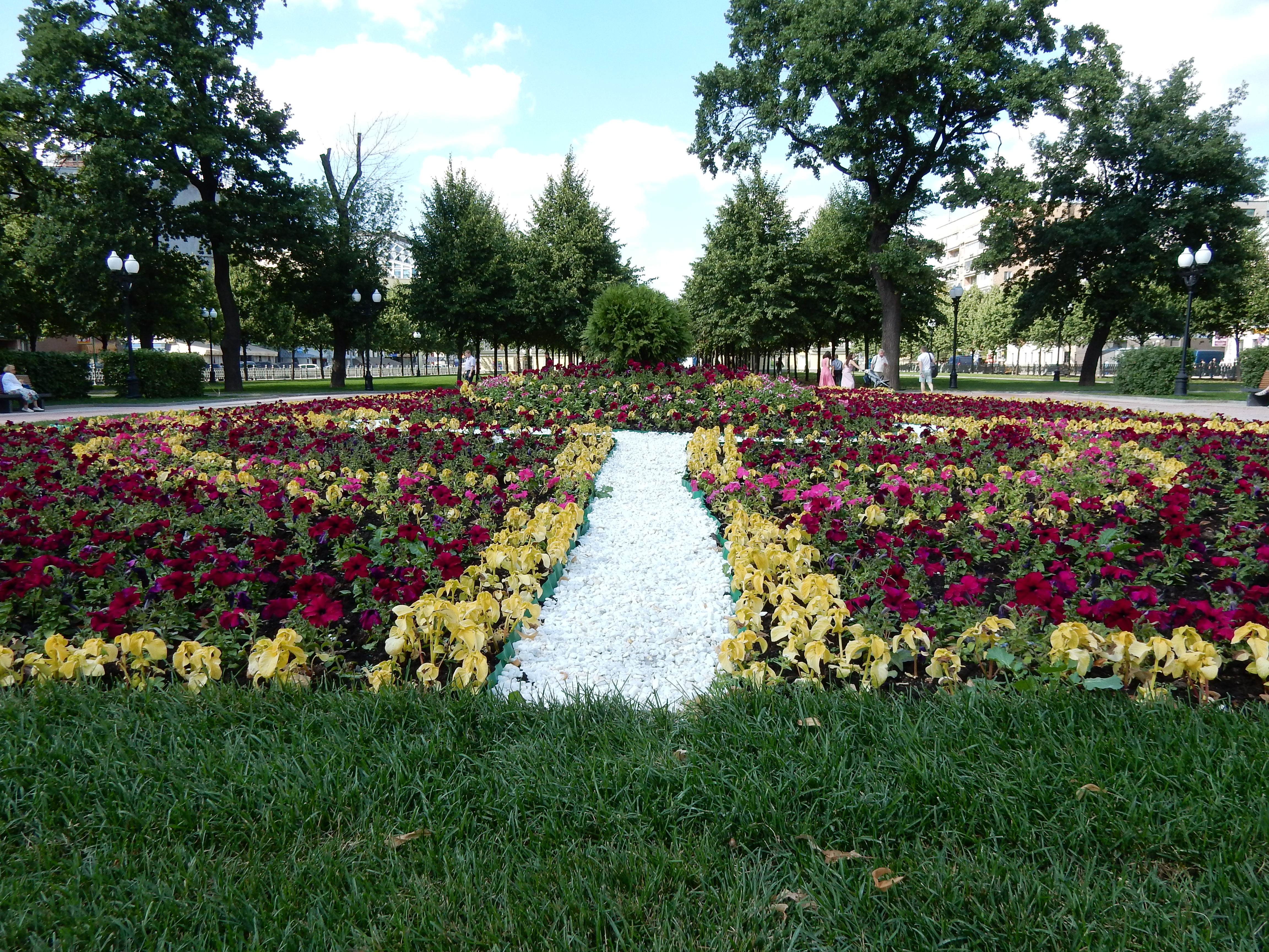 Moscow, Tsvetnoy Boulevard. July 2014.